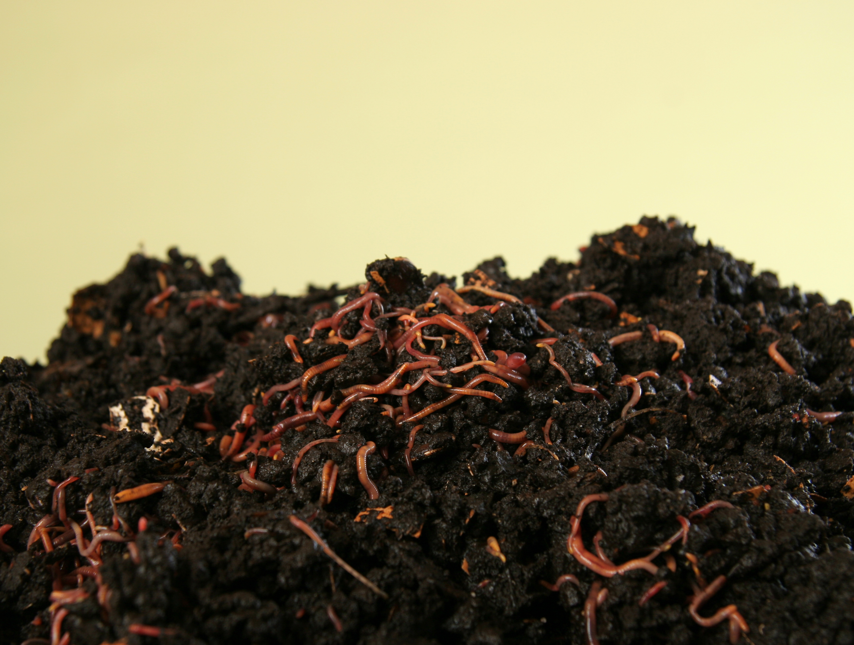 Photo by Wolfgang Berger, Berger Biotechnik, Hamburg, Germany, supplied in Dec. 2012